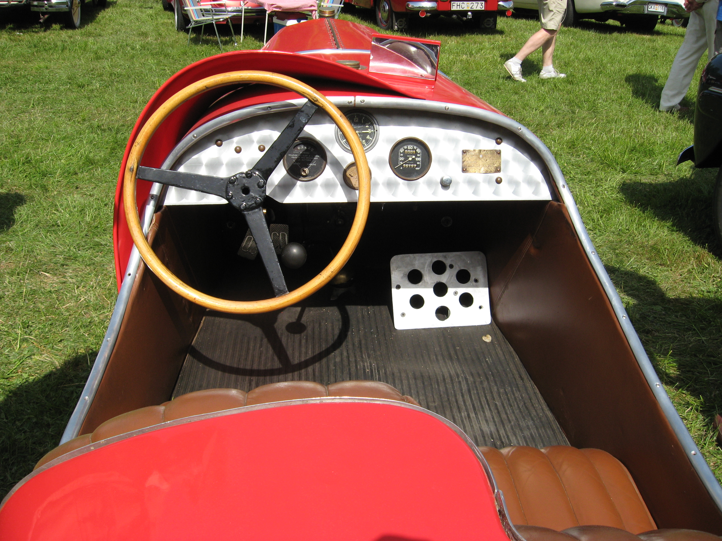 1927 Benova at Prins Bertil Memorial 2008. Chapuis Dornier 1100 cc engine. Perrot-Peganeau front axle. Only five built.